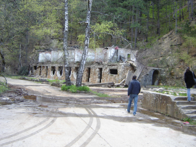 Srebrenica, Ruins of the Mt. Guber hotel & thermal center